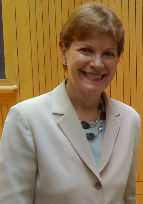 Senator Jeanne Shaheen campaigning in Hanover, New Hampshire, July, 2008